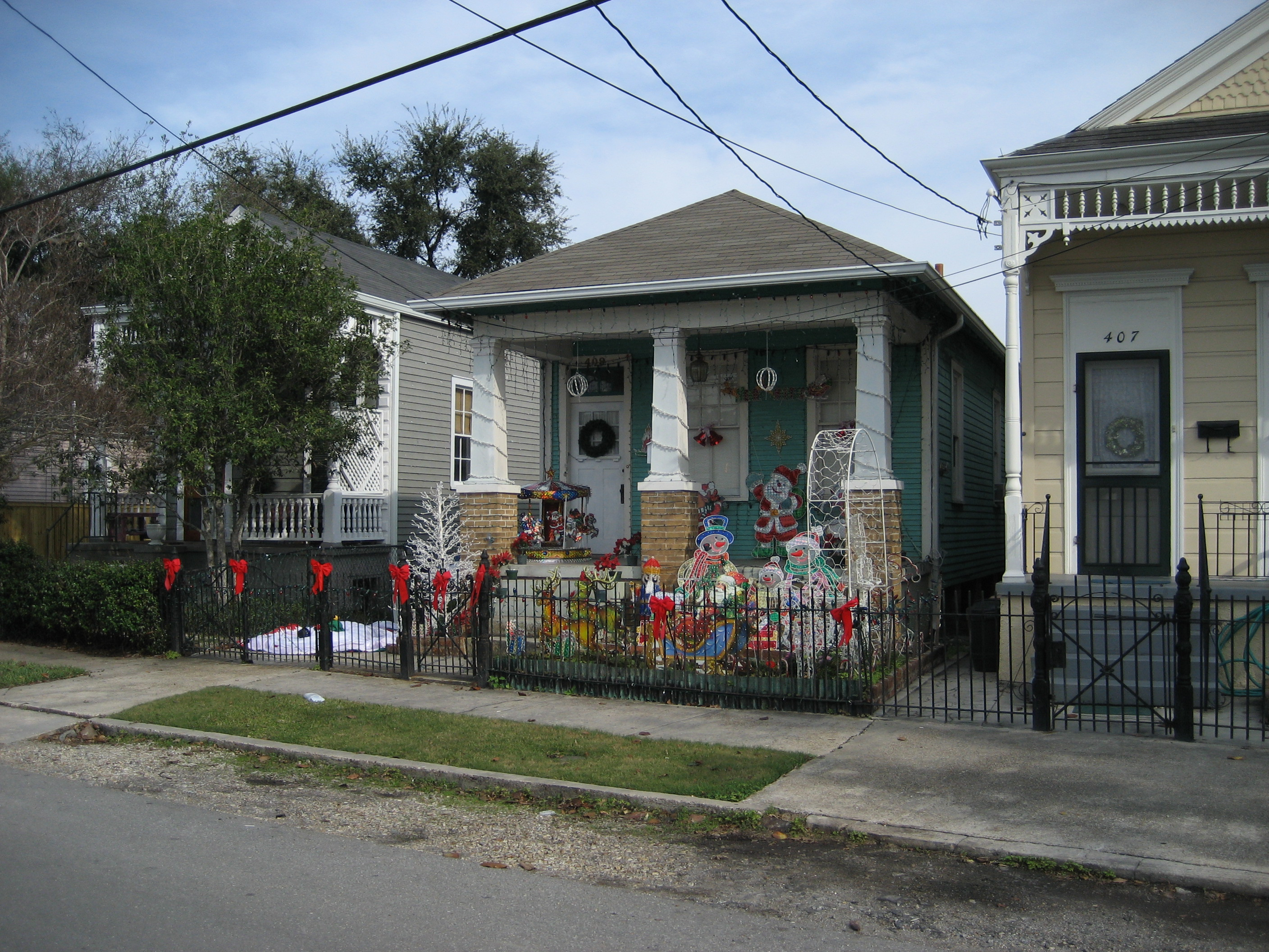 Christmas season decorations on house, Uptown New Orleans